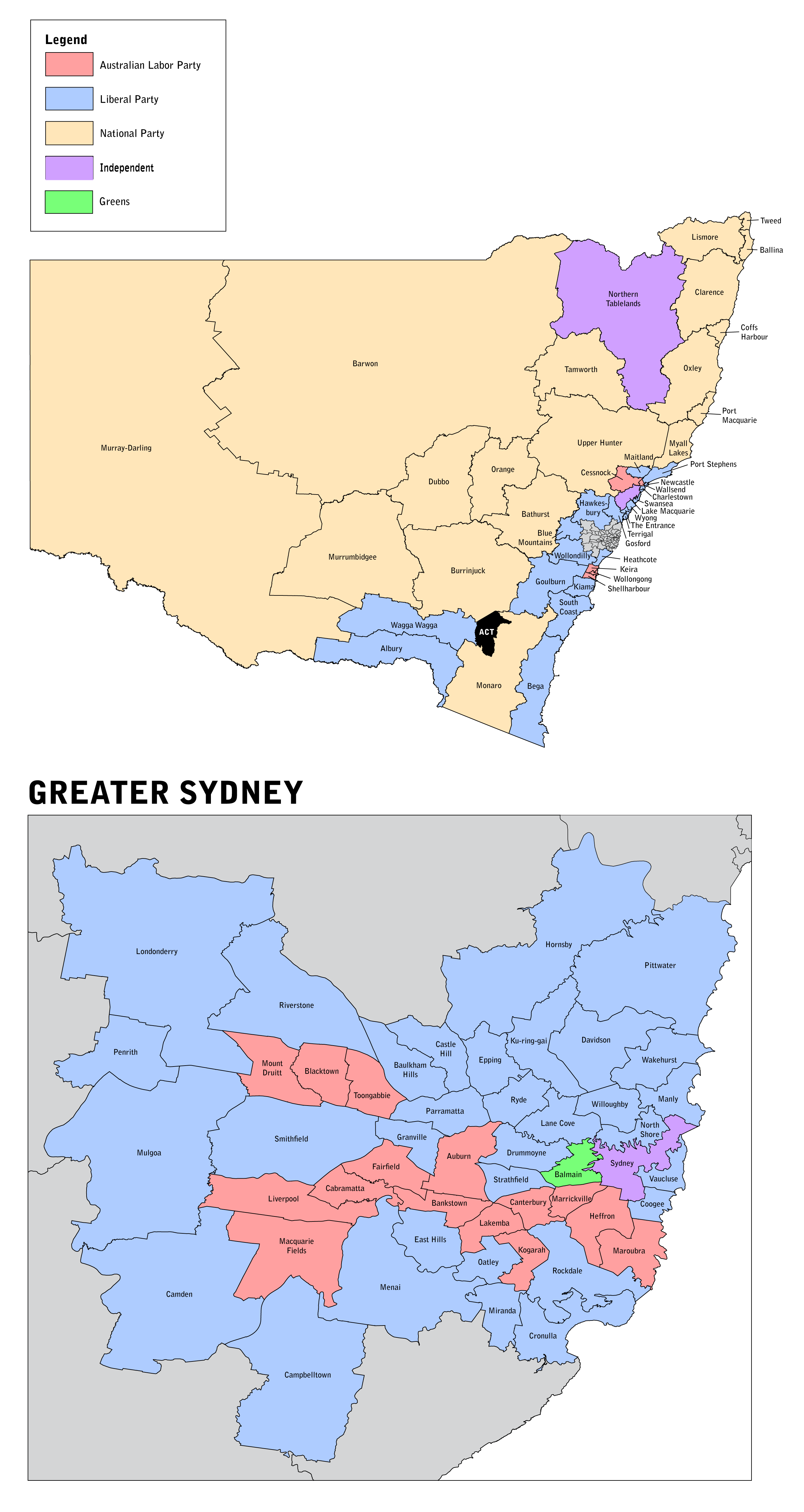 Electoral map of New South Wales with inset for the Greater Sydney area following the New South Wales state election held on 26 March 2011.